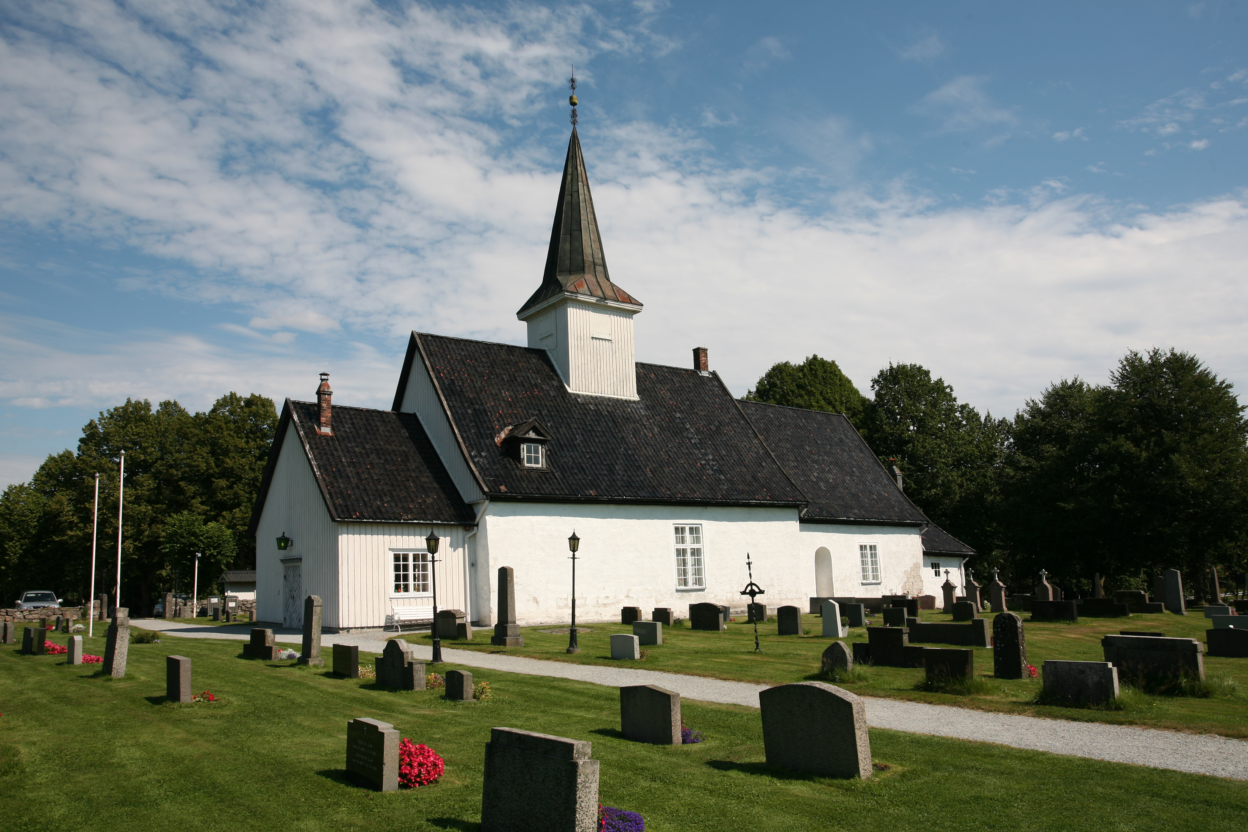 Picture of Idd church (Østfold - Norway)